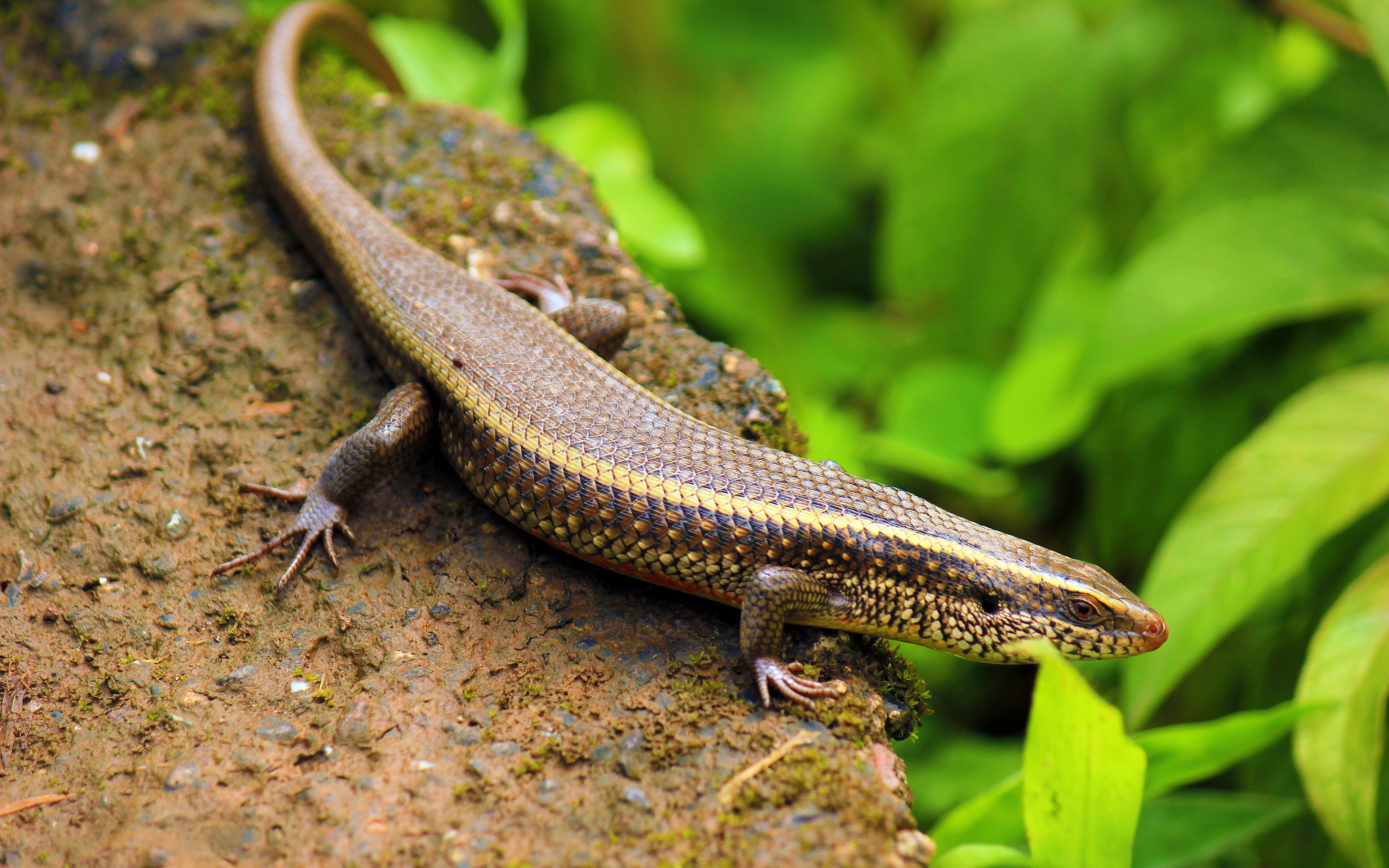 Indian Skink , Saap Surli